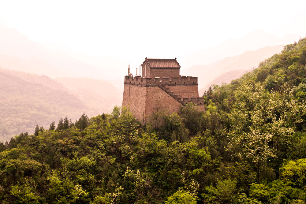 A portion of the great wall near Beijing.